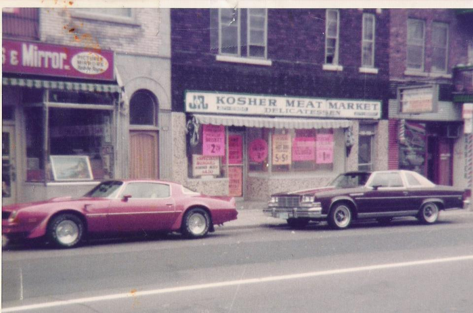 Old Kosher meat market photo